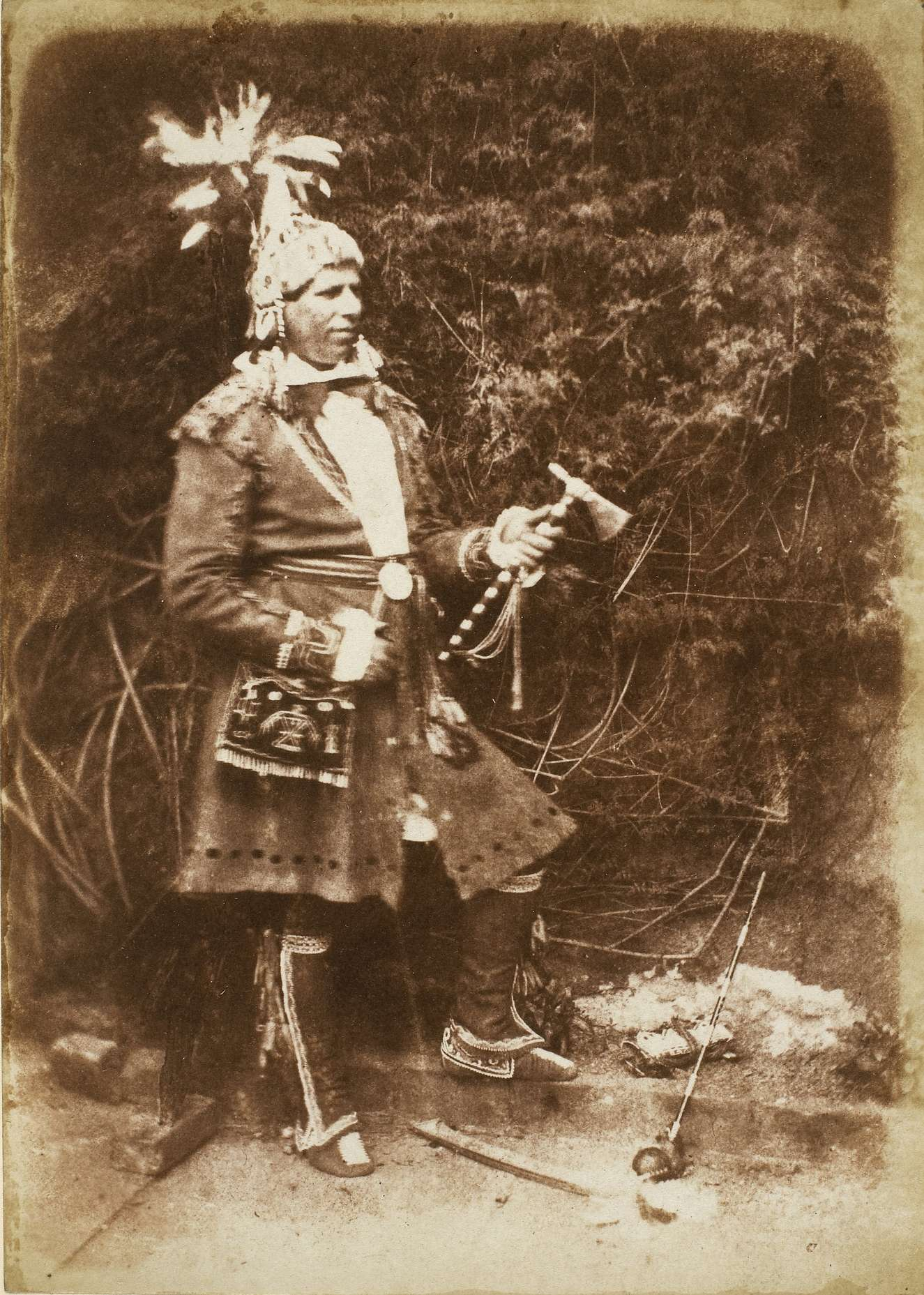 The Waving Plume (Chief Kahkewaquonaby, the Reverend Peter Jones, 1802-1856), 4 August 1845